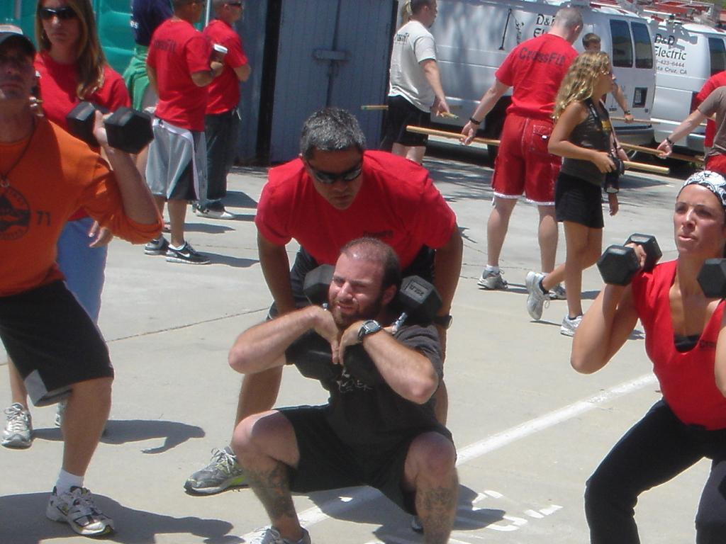 July 2007 CrossFit Trainer certification, Santa Cruz, CA.